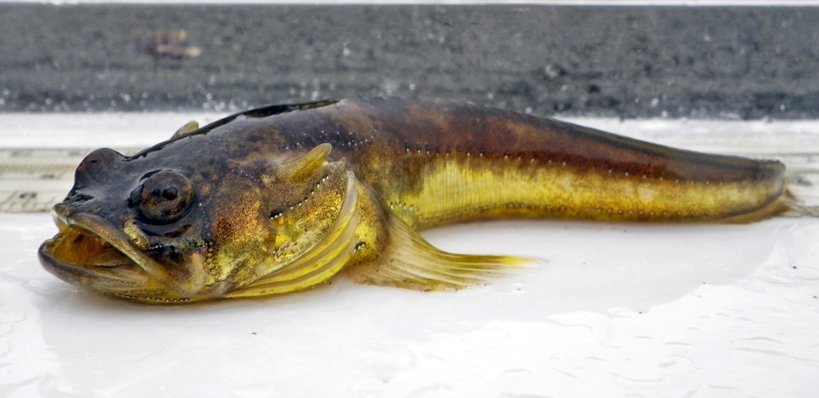 Plainfin midshipman collected in a beach seine by USGS Western Fisheries Research Center scientists while conducting a survey for juvenile surf smelt on Bainbridge Island, WA. Location: Puget Sound, WA, USA